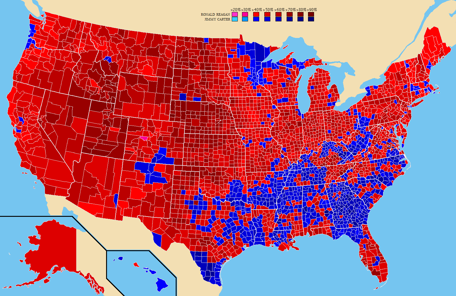 Map showing the results by county of the 1980 United States presidential election specifically identifying the percentage received by the winning candidate in each county.